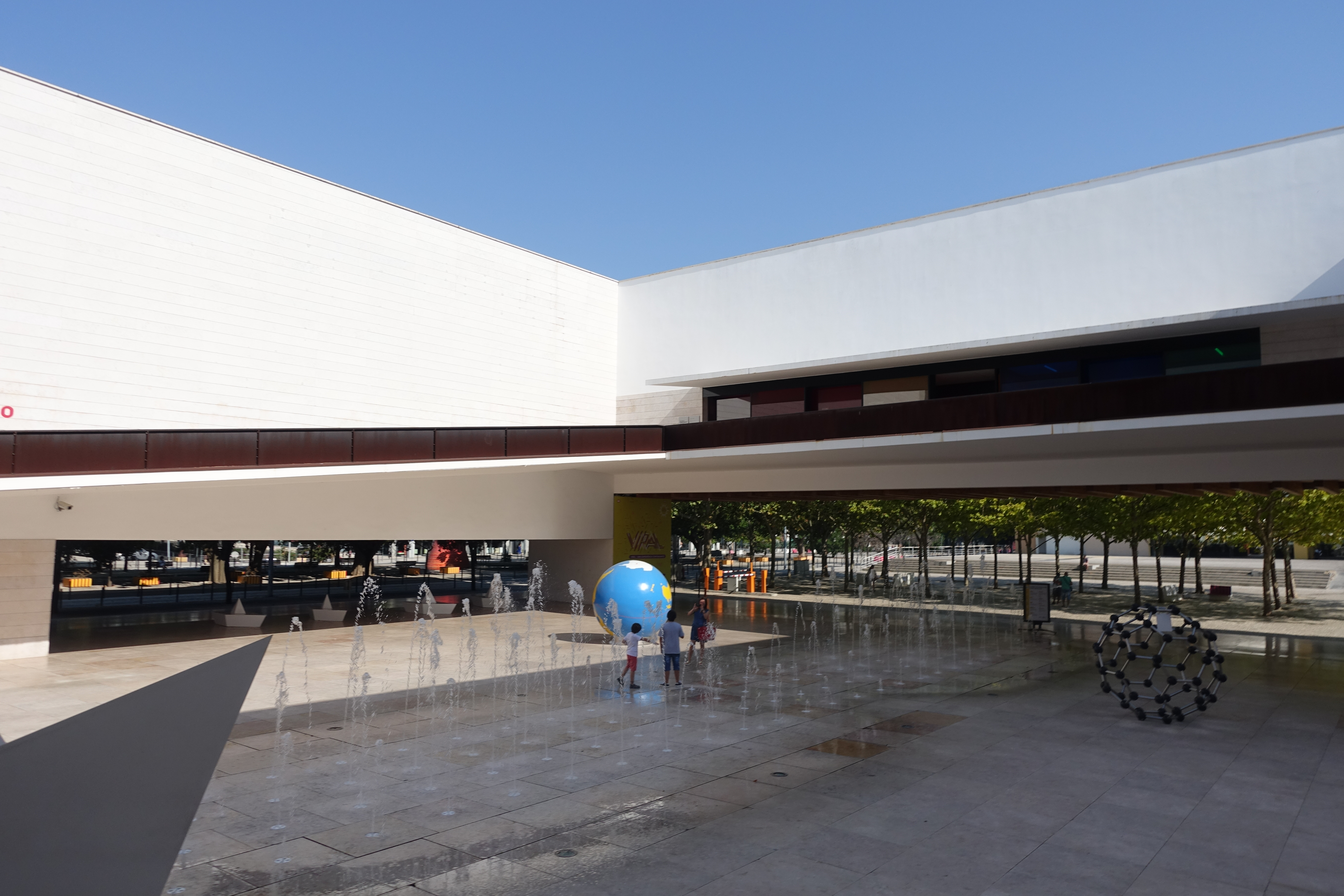 Pavilhão do Conhecimento, Lisbon, Portugal.